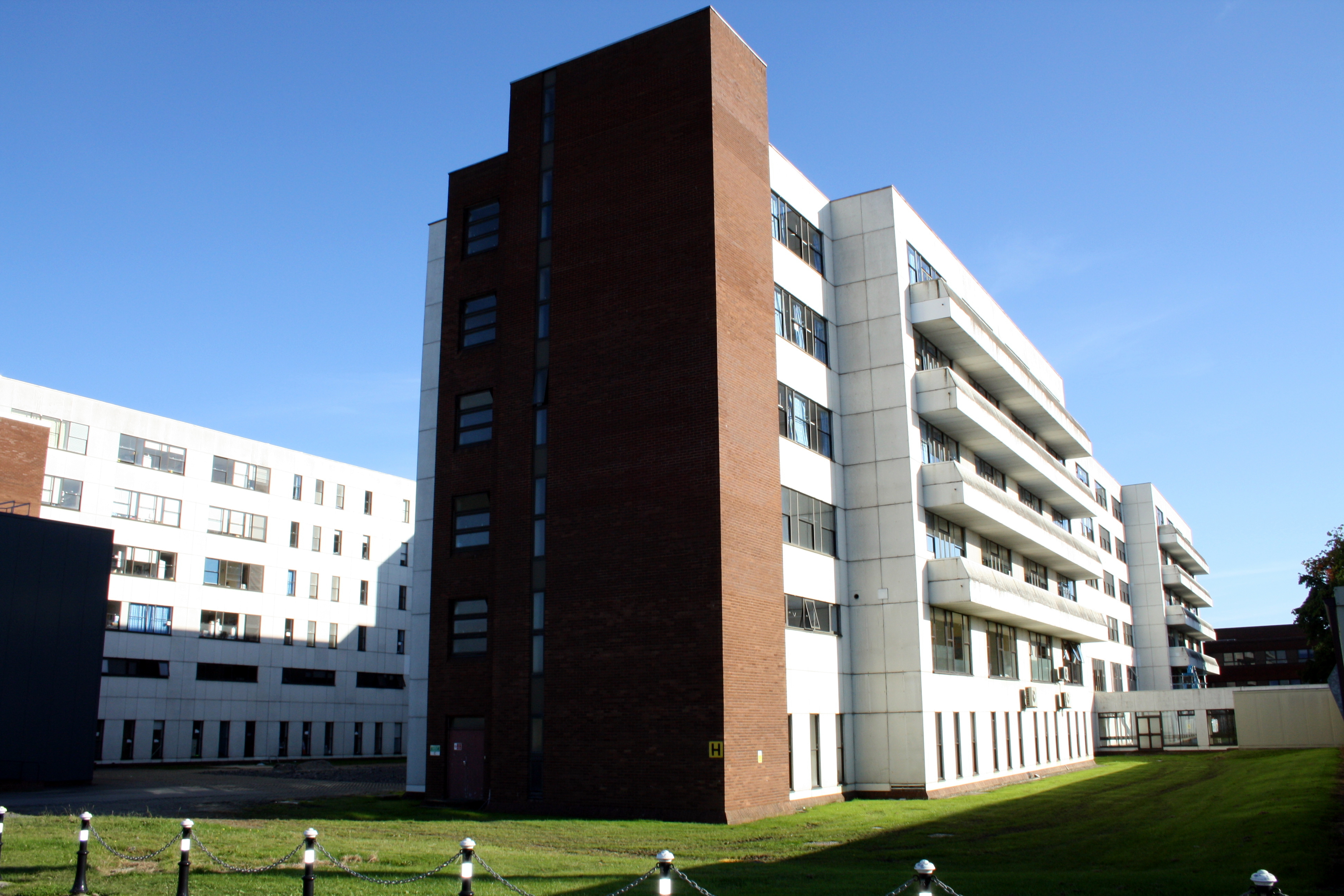 A photo of two of the main medical buildings in Beaumont Hospital, Dublin.